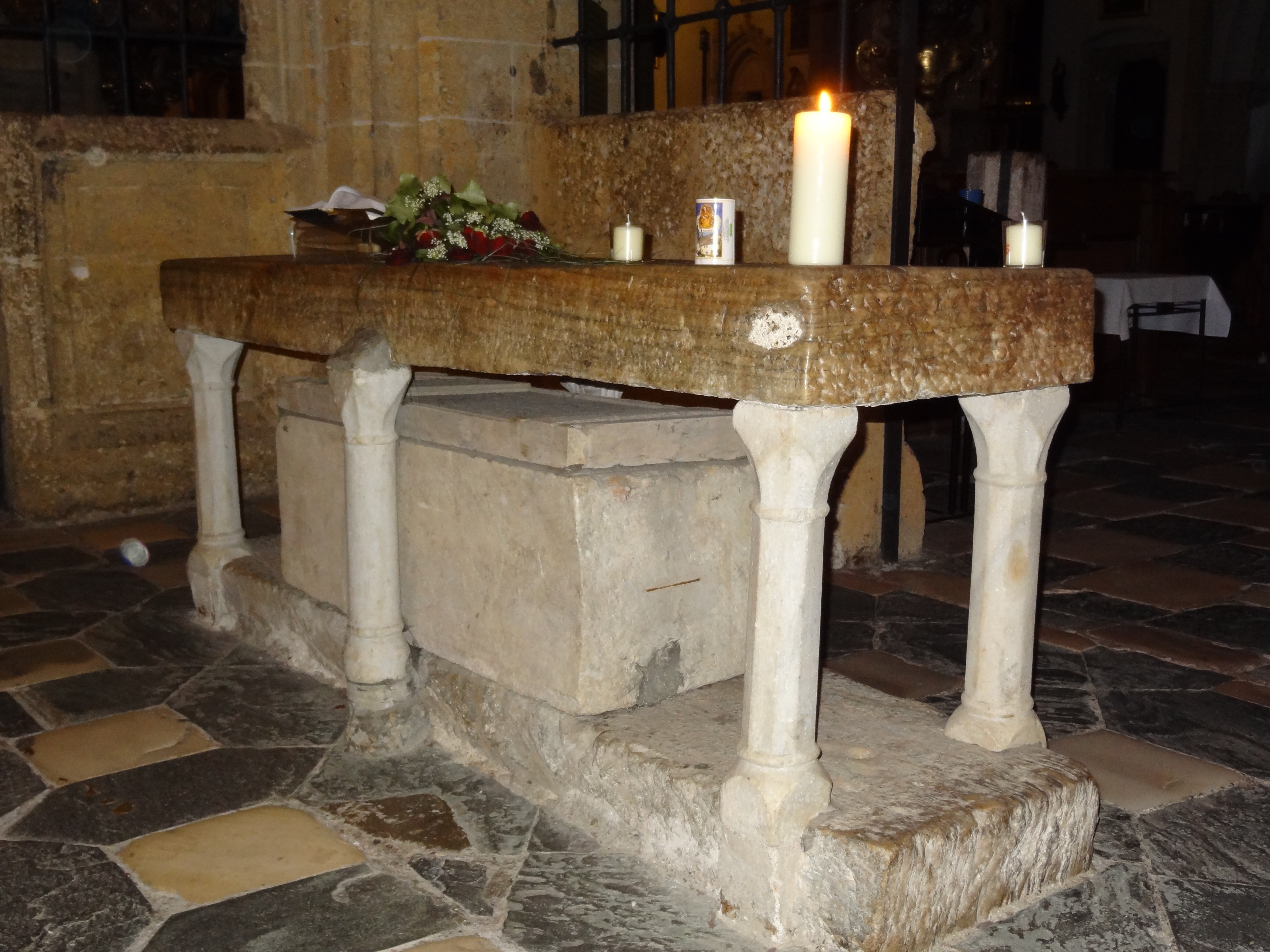 The grave of saint Modest, Apostle of Carantania, in Maria Saal church.